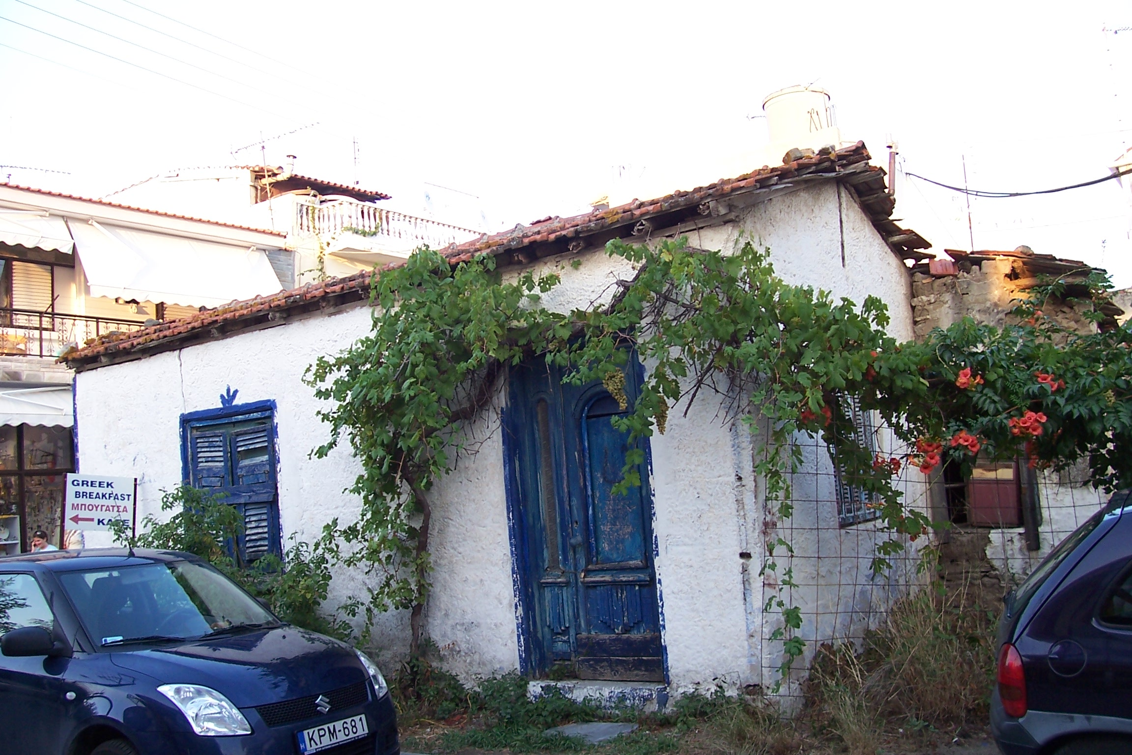 Sarti, Chalkidiki Prefecture, Greece.